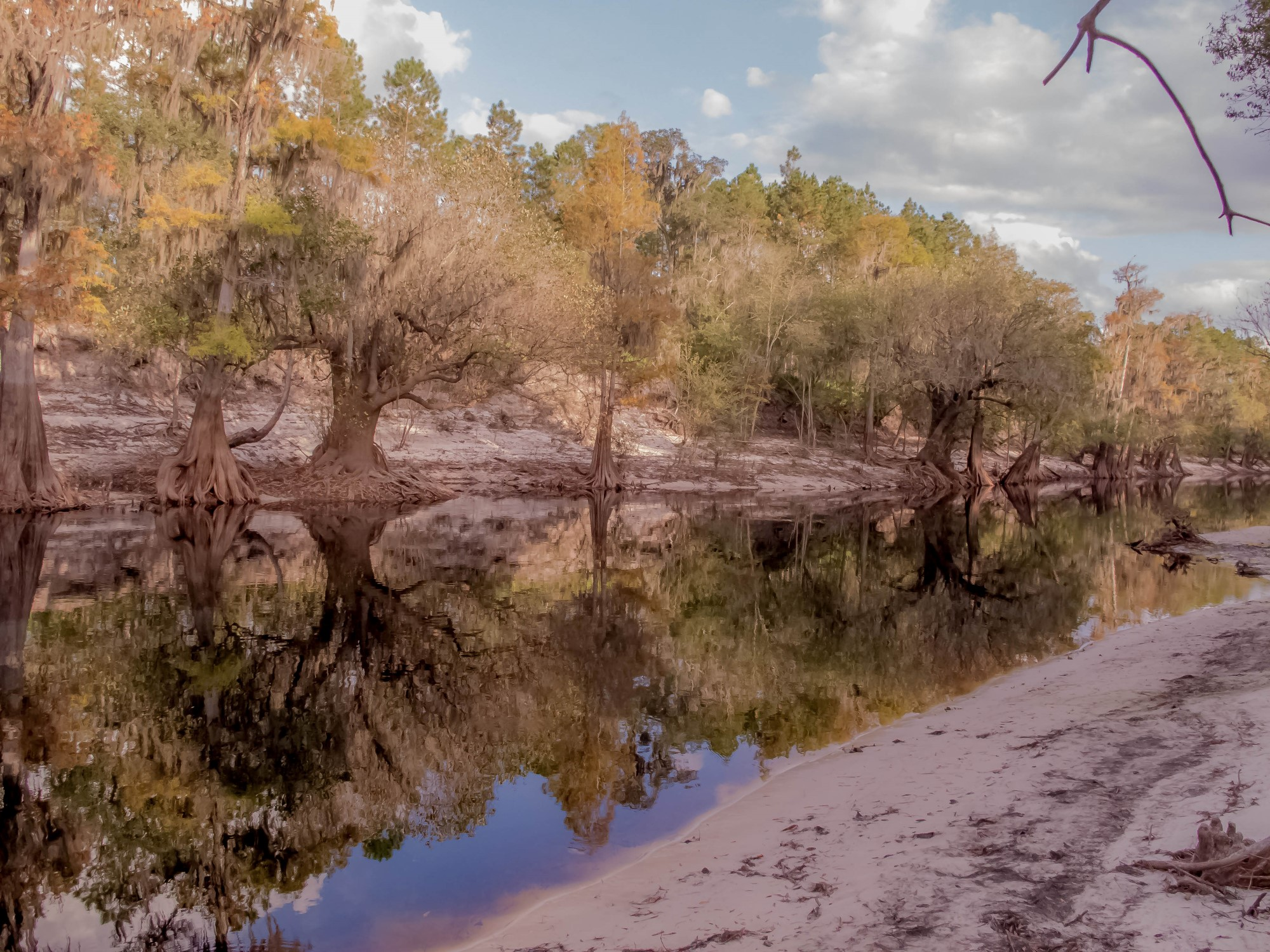 Along the Suwannee